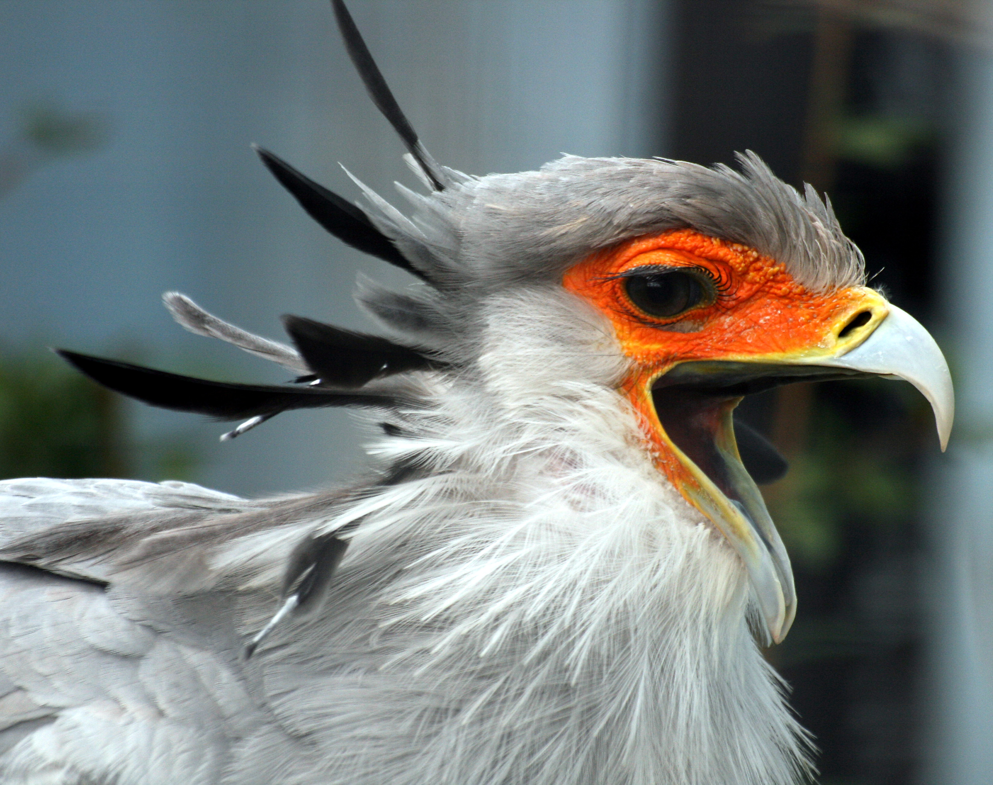 Secretary Bird, Sagittarius serpentarius. Shot at Eagle Heights Wildlife Park, Kent, England.